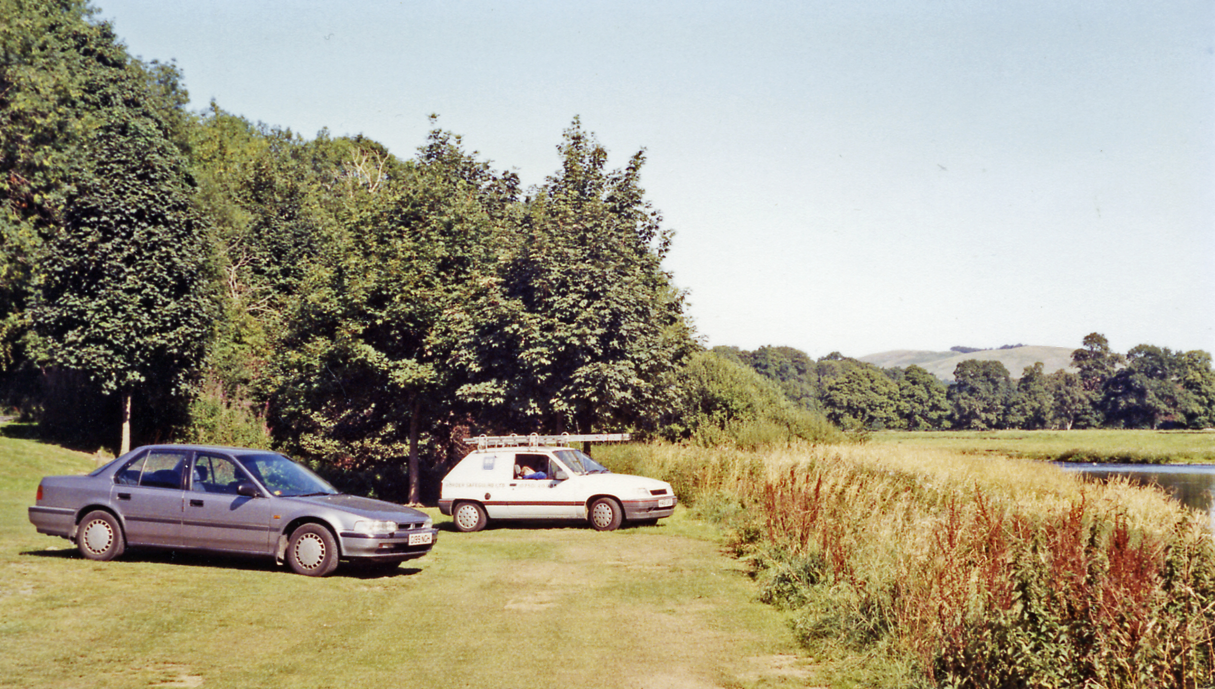 Site of Abbotsford Ferry station, 1991. View eastward, towards Galashiels beside the River Tweed and the A7 road, on the path of the ex-NBR Galashiels - Selkirk branch. This station had been closed since 5/1/31, but the branch was not closed finally until 2/11/64 although passenger services ceased from 10/9/51. (My Honda Accord rather dominates the picture).